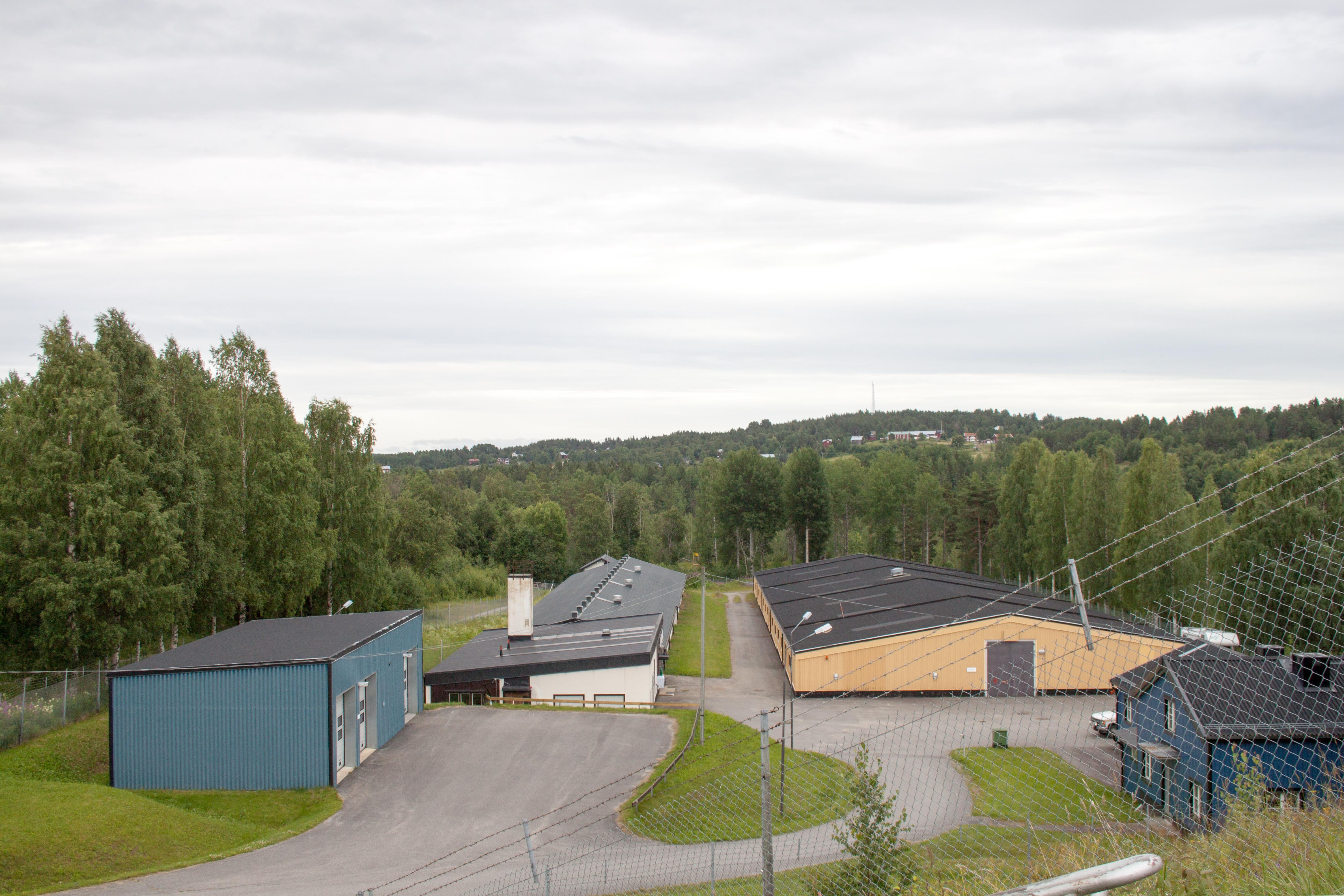 Salmon-breeding plant close to the rock carvings at Norrfors